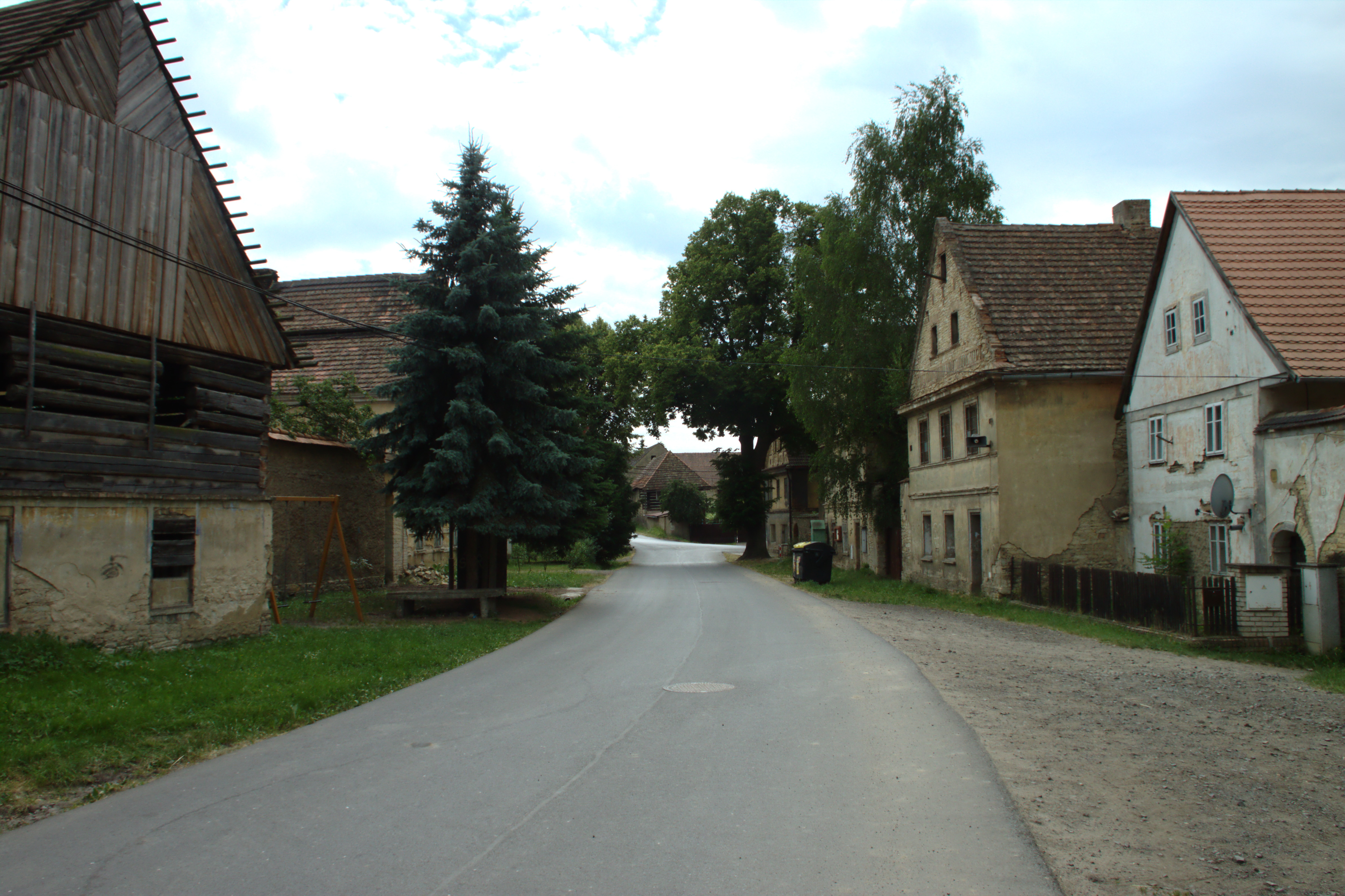 Front side of the oldest buildings in the village of Svařenice, Ústí Region, CZ